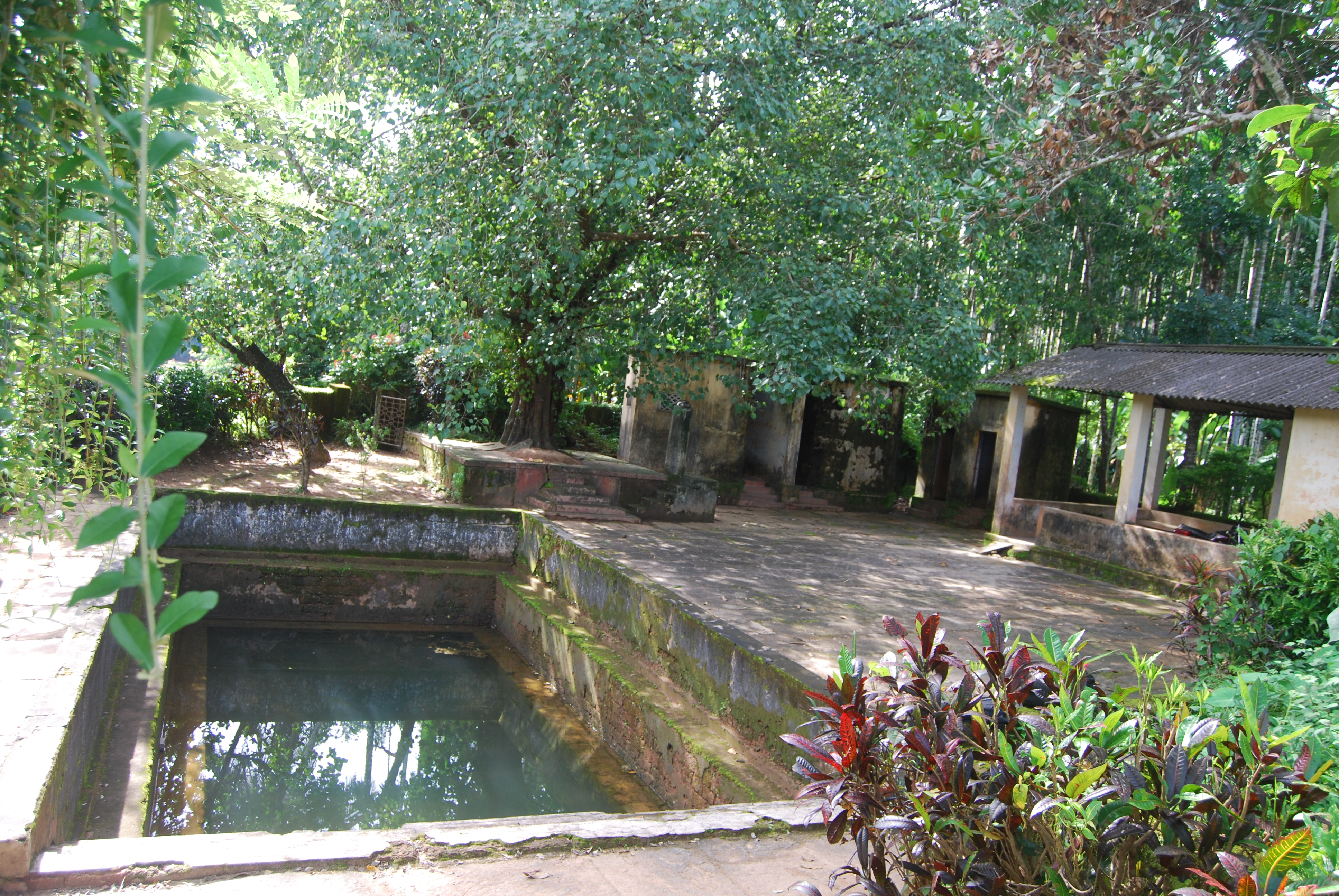 The lone hot spring of South India